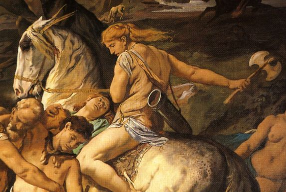 Detail from Anselm Feuerbach's Amazon battle.